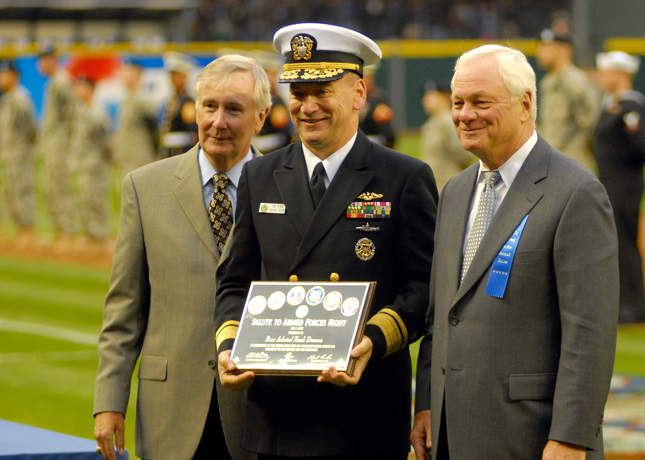 SEATTLE (April 3, 2007) — Commander, Submarine Group Nine and Ten, Rear Adm. Frank Drennan, accepts a commemorative plaque for his service to the country from Seattle Mariners CEO Howard Lincoln, left, and President Charles G. Armstrong, right, during the 5th Annual Salute to the Armed Forces Night at Safeco Field in Seattle. The event, hosted by the Mariners and the Boeing Company, paid tribute to the men and women serving in the armed forces during the Mariner’s 2nd Major League game of the season, held against the visiting Oakland Athletics.